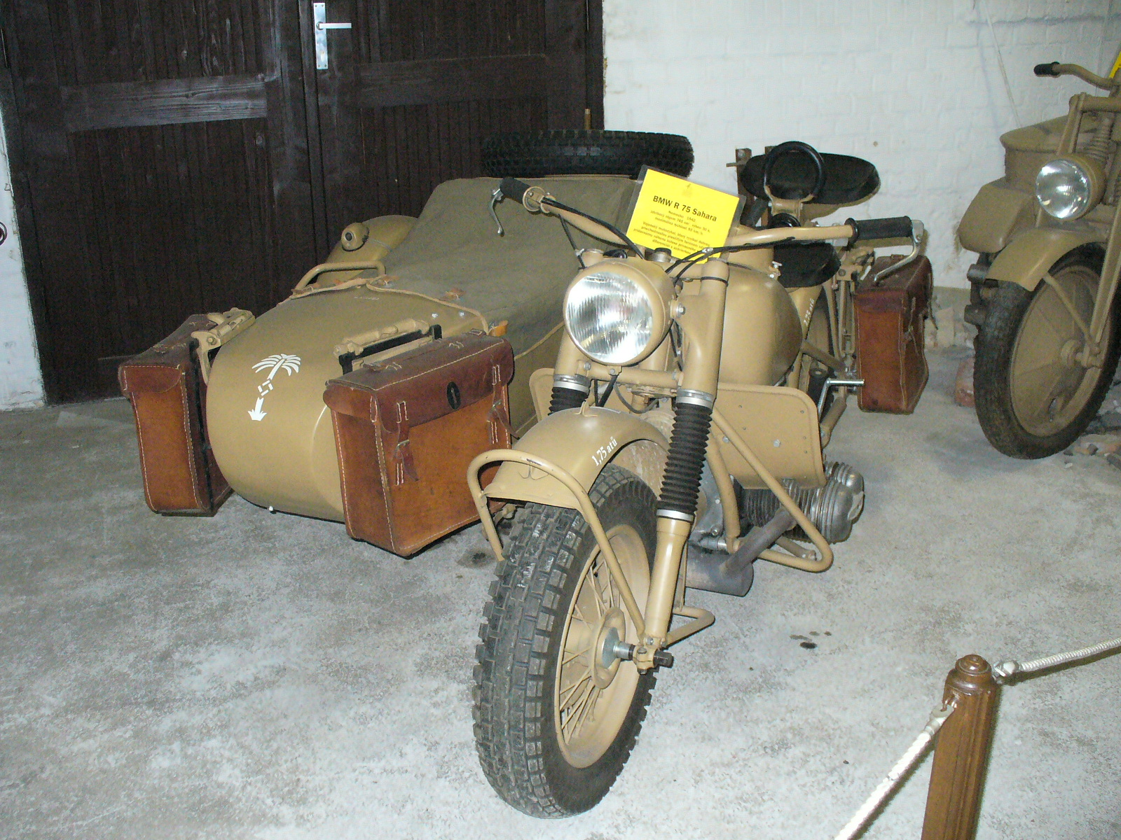 BMW R75 Sahara. Muzeum Dopravy Bratislava